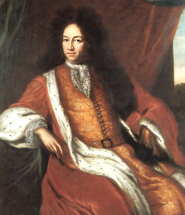 Portrait of Carl Piper (1647-1716)